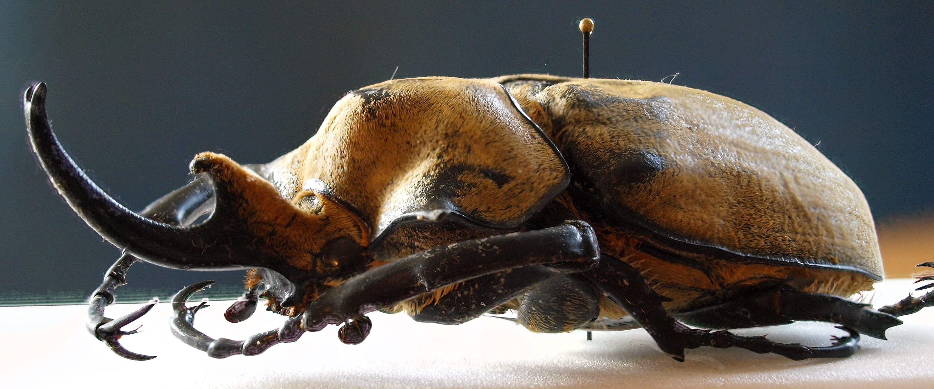 Megasoma occidentalis, male, stacked image. Source: own collection